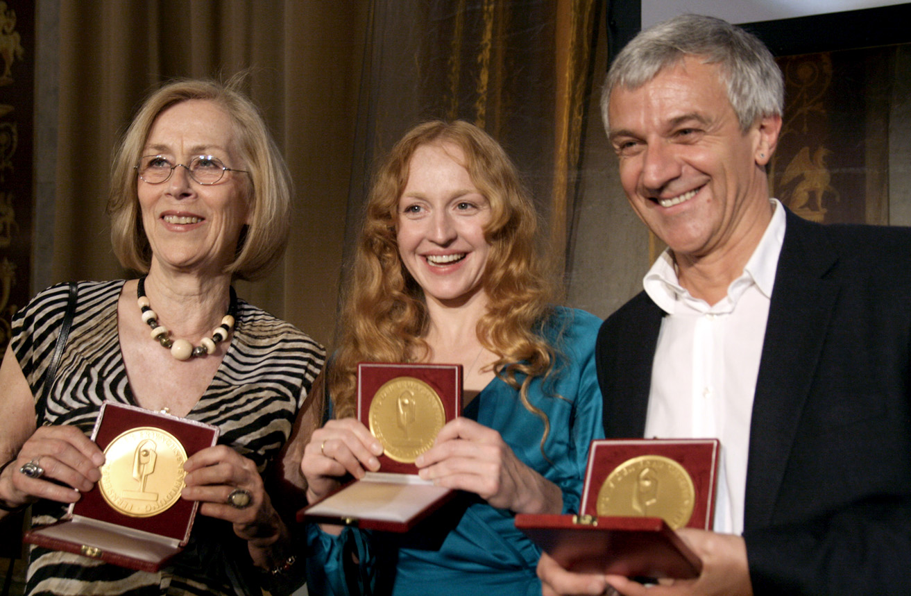 Dagmar Hirtz, Brigitte Hobmeier and Peter Probst, 43. Fernsehpreis der Österreichischen Erwachsenenbildung at the Budget Hall of the Austrian Parliament Building in Vienna.